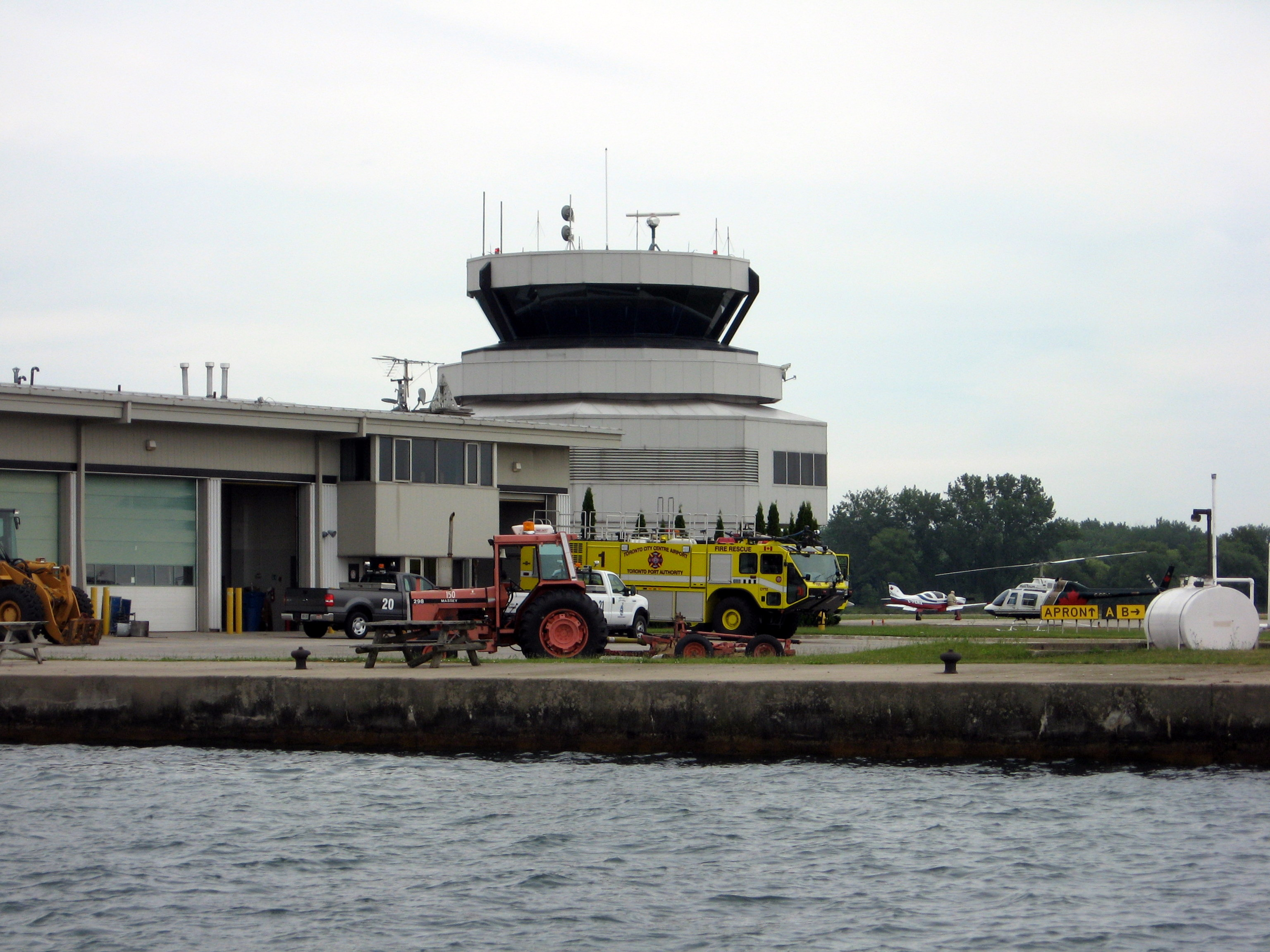 The contorl tower for the Toronto City Centre Airport in Toronto, Ontario, Canada.